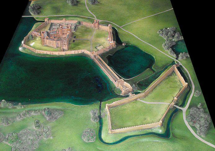 A model of Kenilworth Castle on permanent display in the site's visitor centre. The model is a reconstruction of how the castle may have appeared in the late 16th century; the caption below it (out of shot) reads "Kenilworth Castle: This model shows the castle as it may have appeared in about 1575–80."